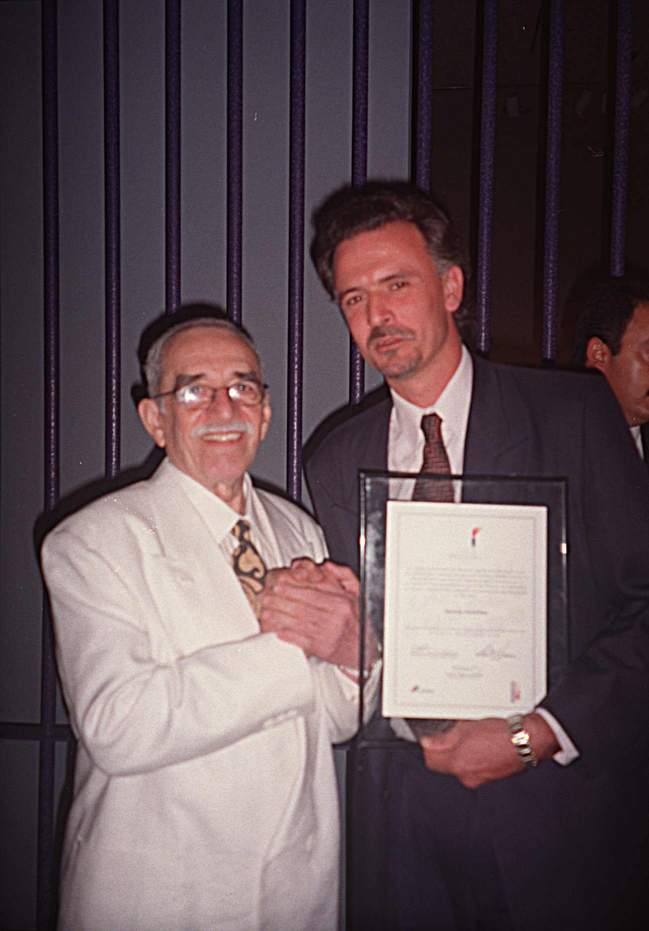 García Marquez delivers the second prize of his foundation to Daniel Santoro